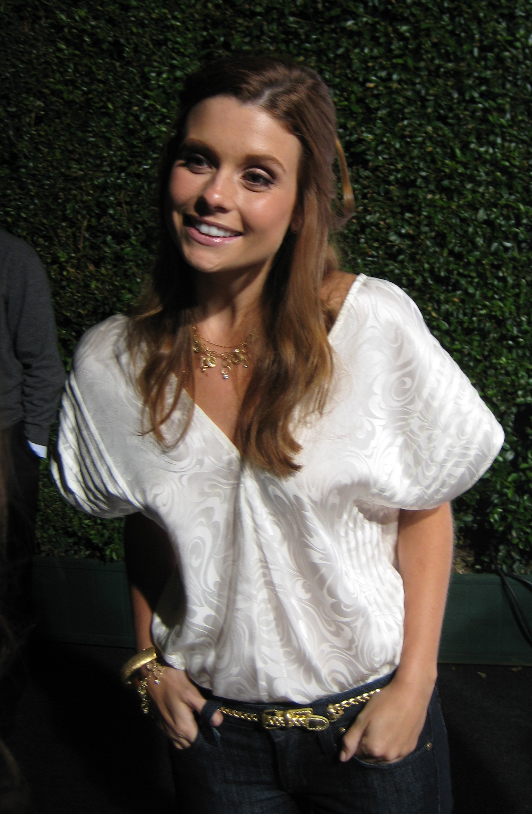 Entertainment Weekly/Revlon Party, Beverly Hills Post Office, Sept. 20, 2008